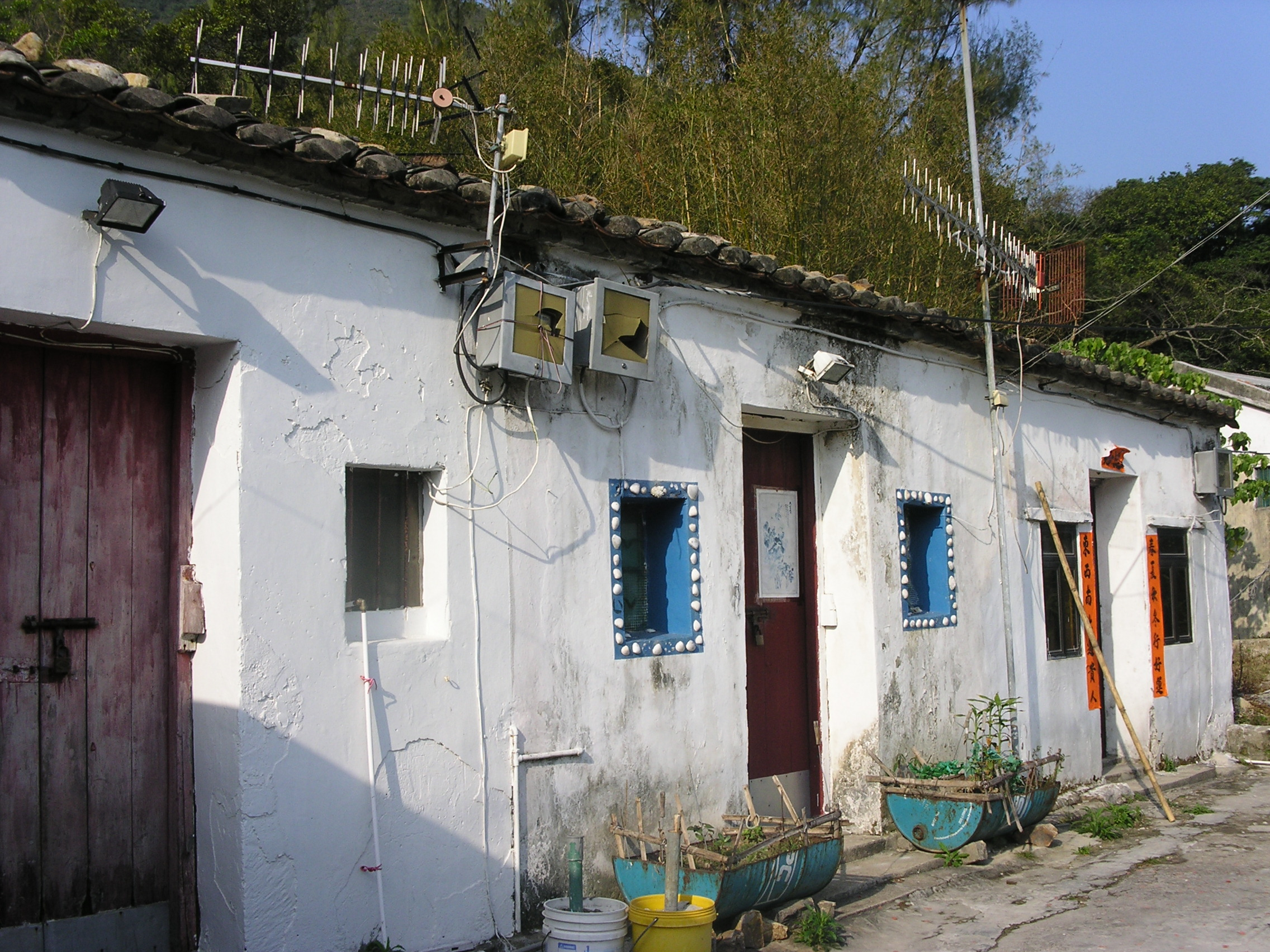 House in Sai Wan in Hong Kong, most of them have about 100 years history, and they live here about 600 years.西灣村是一條古村落，最早可能建於明成化年間，而現存房屋不少都有過百年歷史。